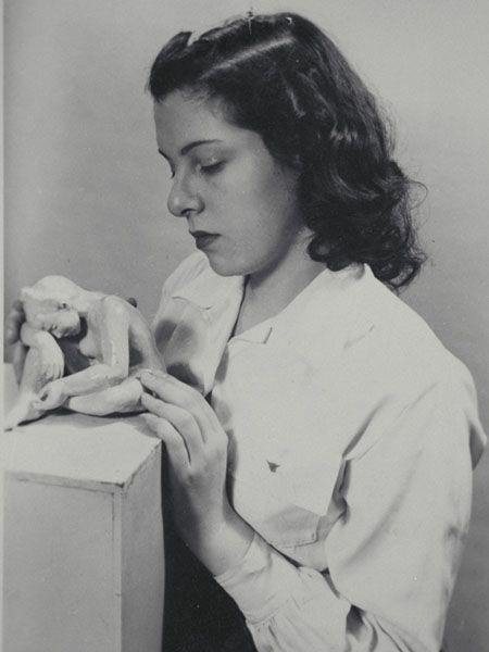 Title: Erna Weill Creator/Photographer: unknown Medium: Black and white photograph Date: undated Repository:Leo Baeck Institute Parent Collection: Erna Weill Collection AR 1417 Call Number: F 23042 Rights Information: No known copyright restrictions; may be subject to third party rights. For more copyright information, click here. Find more information about this image and others at CJH Archives and Library Catalog.